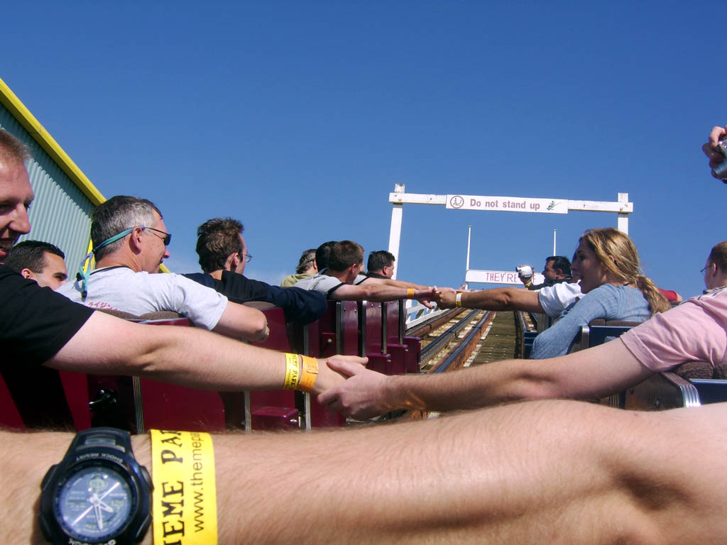 Holding hands on the lift hill of Grand National at Blackpool Pleasure Beach. Taken June 2006 Taken with permission from BPB's public relations department